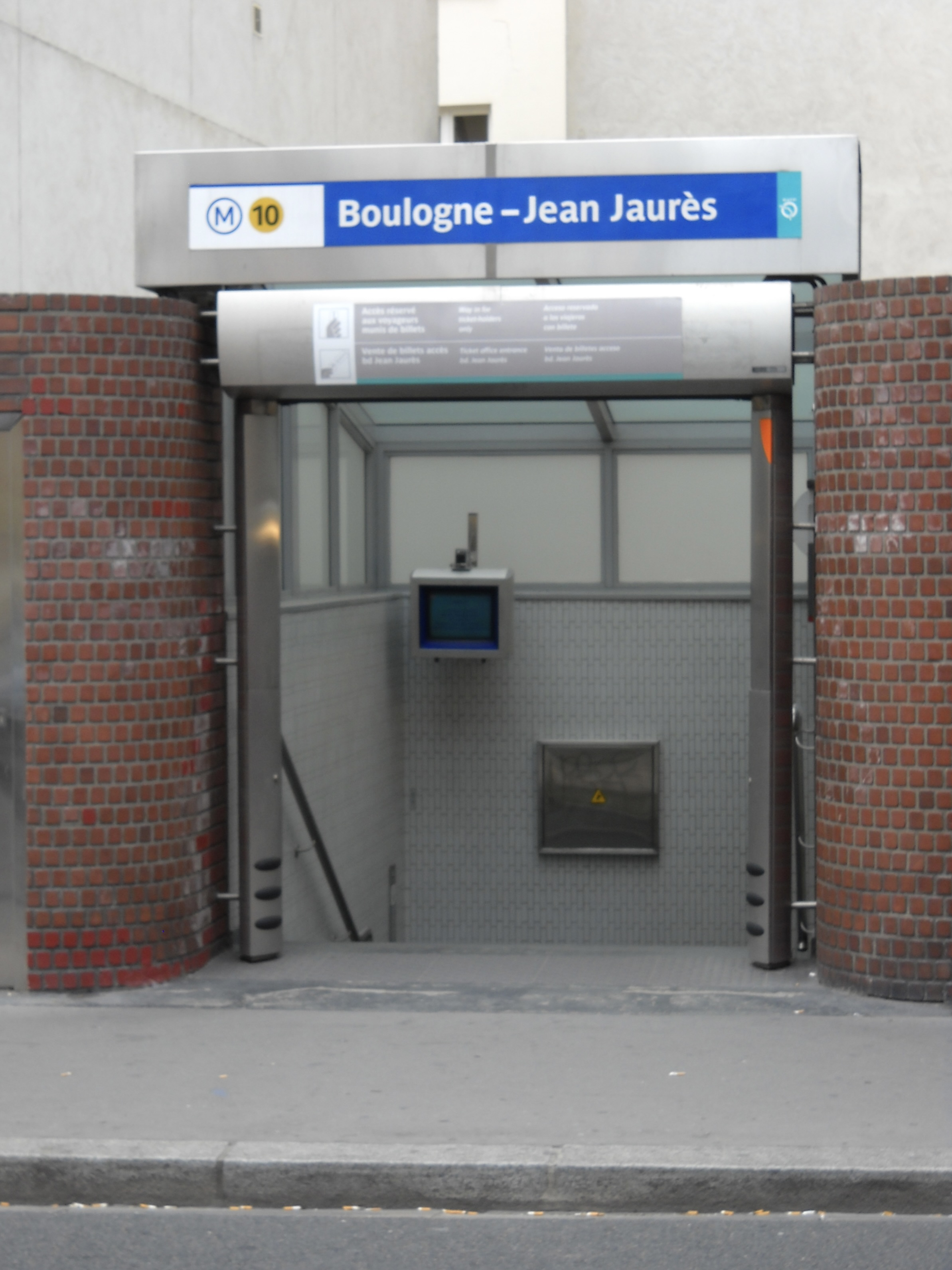 Boulogne-Jean Jaurès station, on Paris metro line 10.